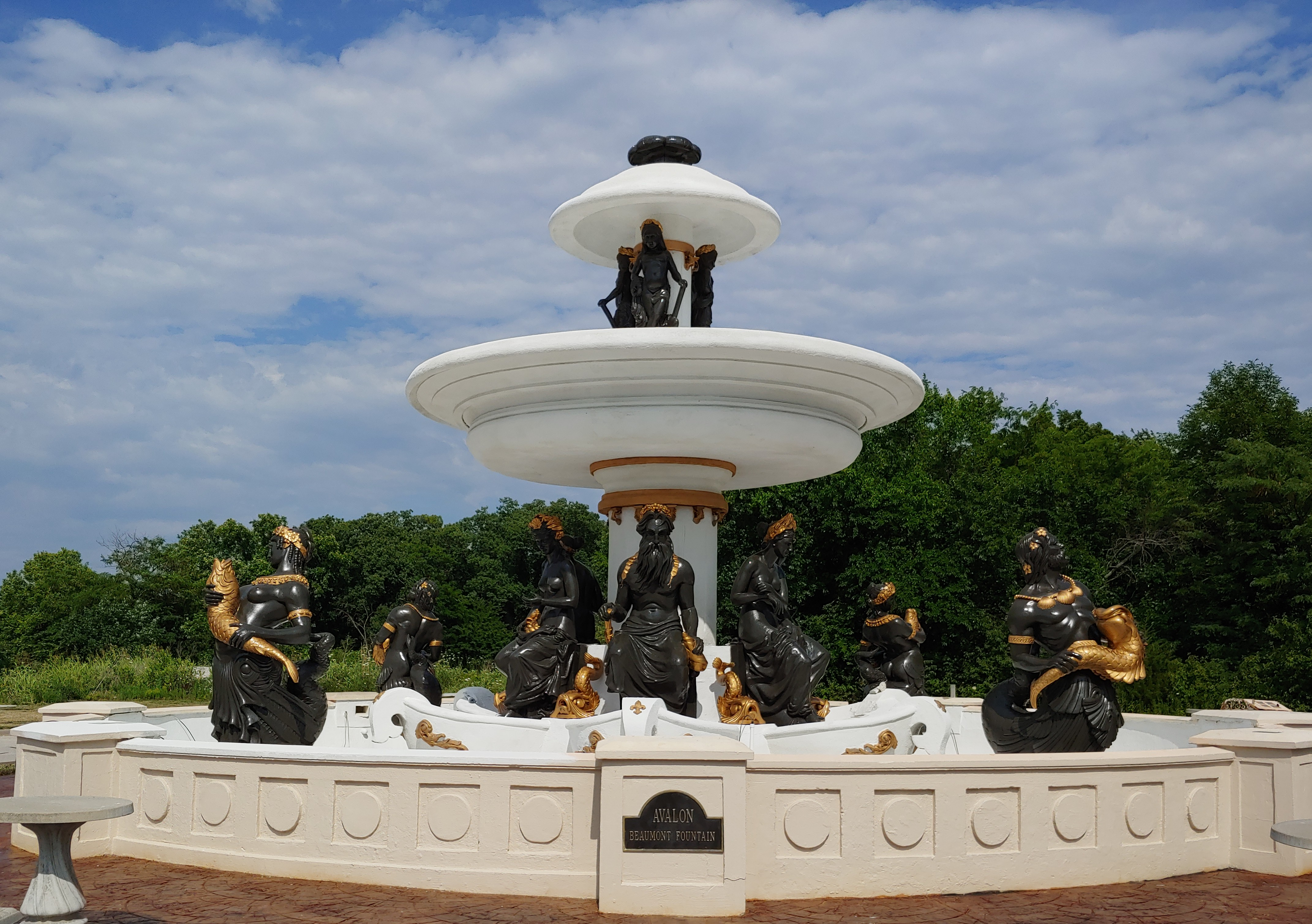 Picture of the Beaumont Fountain from the front before turning on the water in 2020